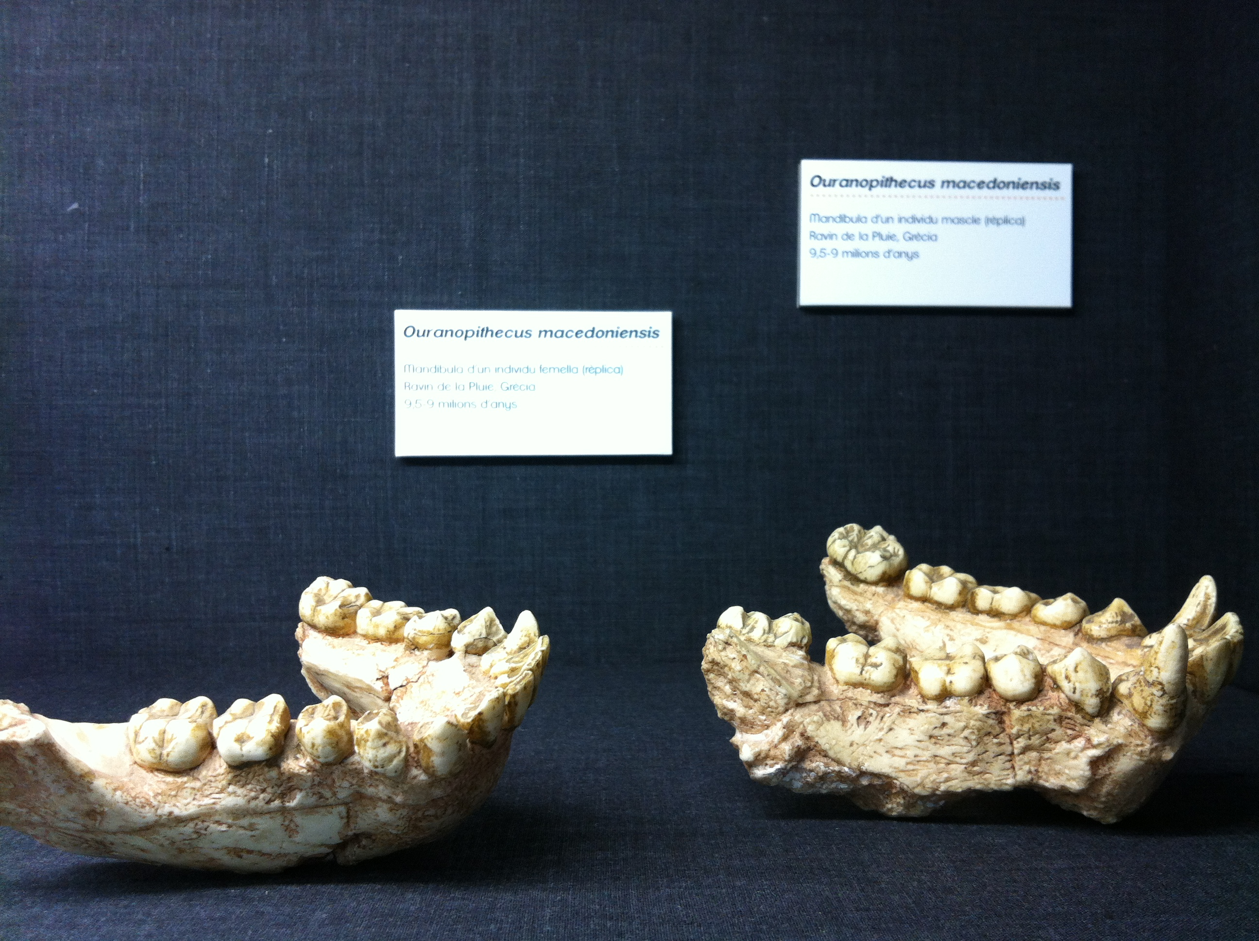 Gairebé humans (in Catalan): Almost humans exhibit at Institut Català de Paleontologia Miquel Crusafont, in Sabadell (Catalonia) 2012-2013